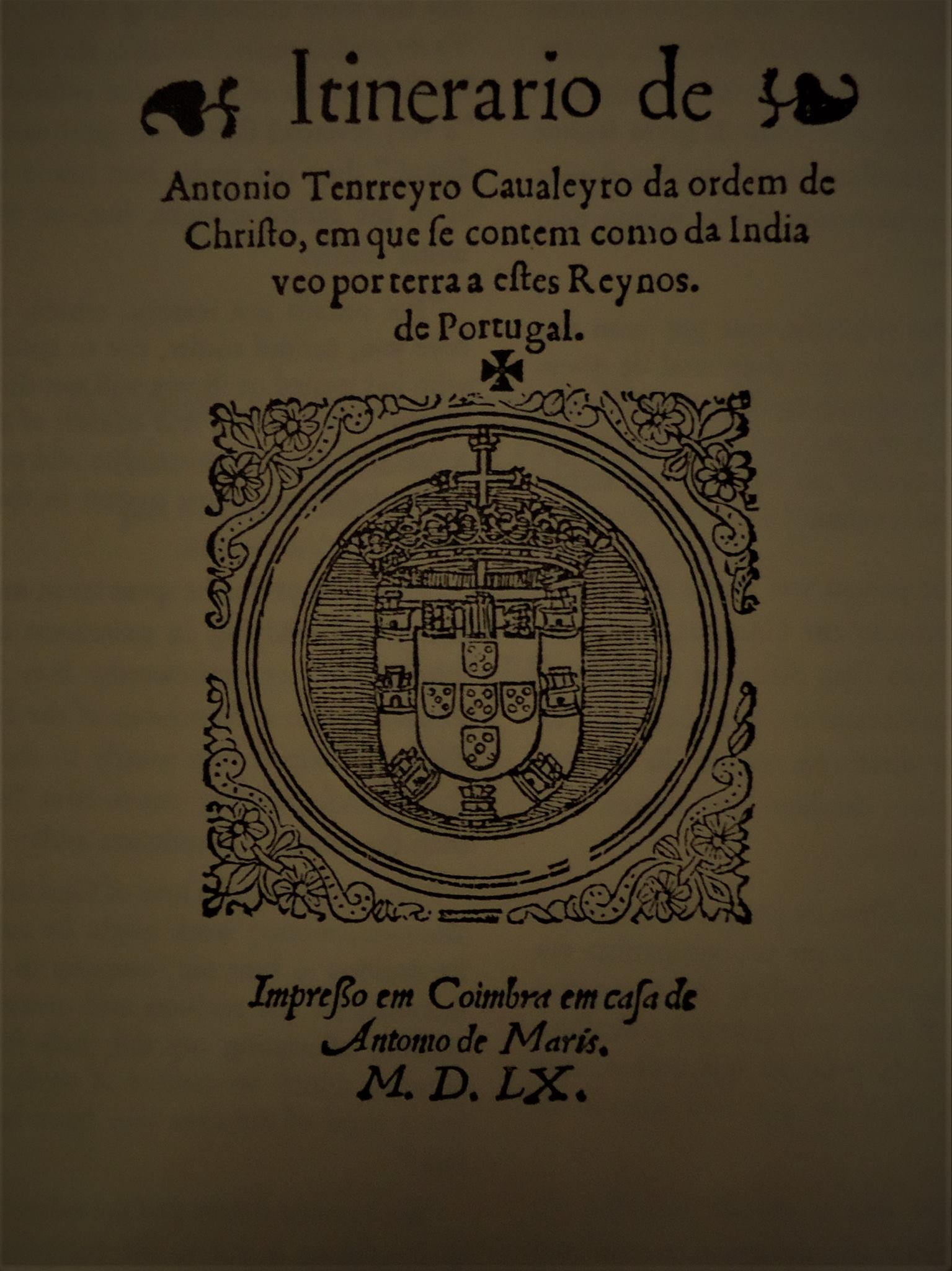 Frontcover of the first edition if portugueses of Antonio Tenreiro's Itinerário de António Tenrreyro, cavaleyro da ordem do Christo, em que se contem como da Índia veo por terra a estes Reynos de Portugal